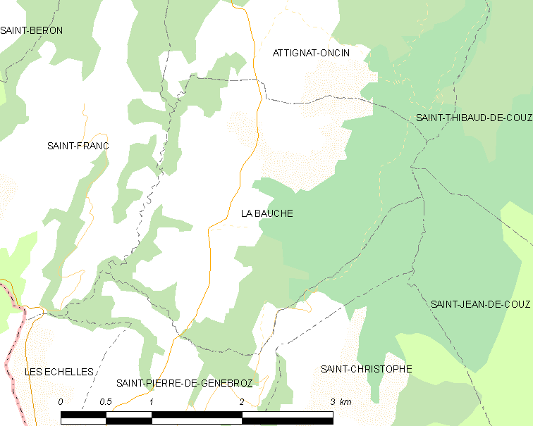 Map of French municipality